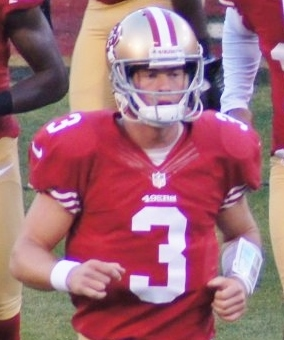 San Francisco 49ers backup quarterback Scott Tolzien on August 30, 2012 before the 49ers' final preseason game vs the San Diego Chargers